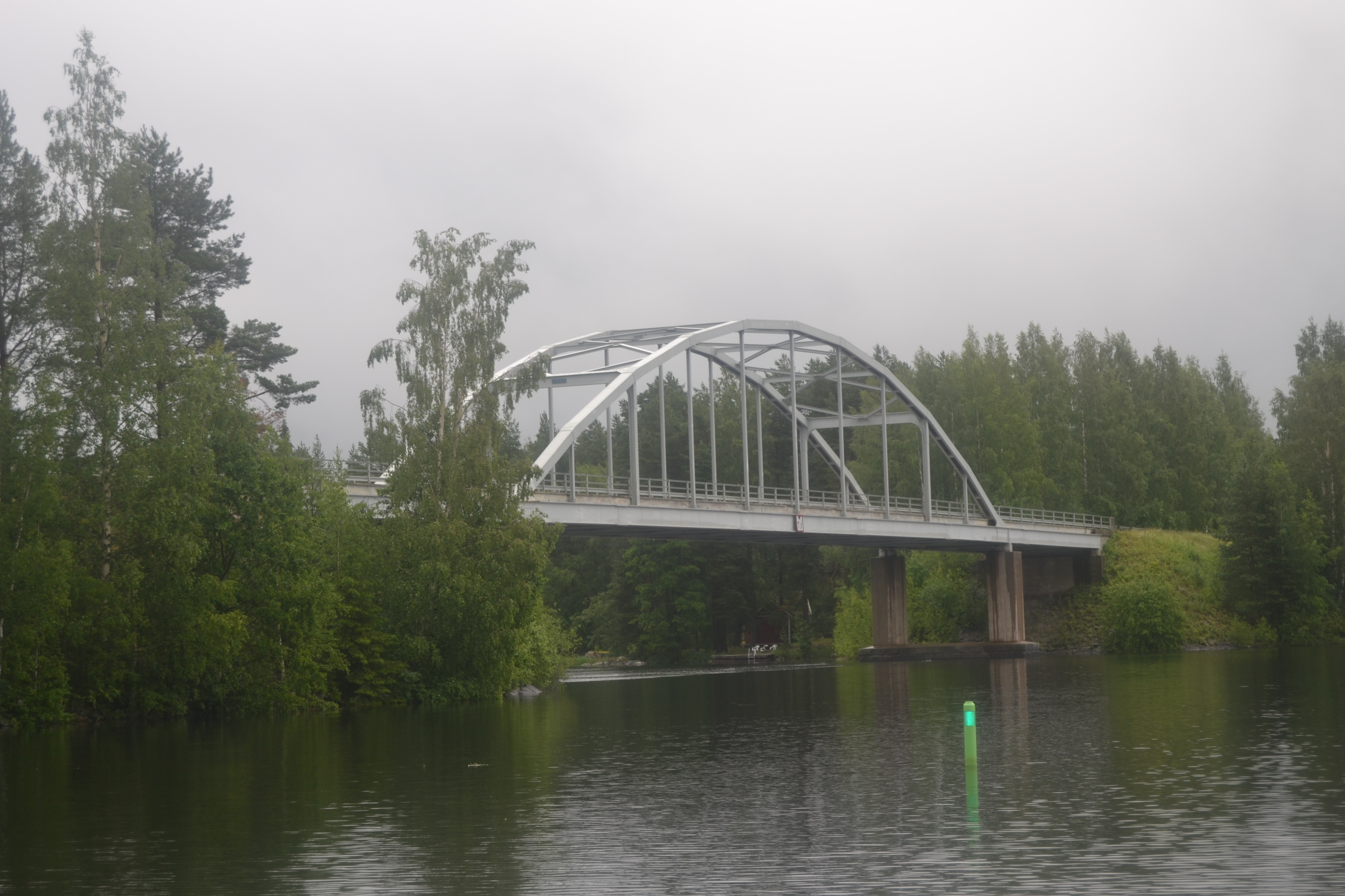 Kivisalmi bridge carrying National road 69 in Konnevesi and Rautalampi, Finland.